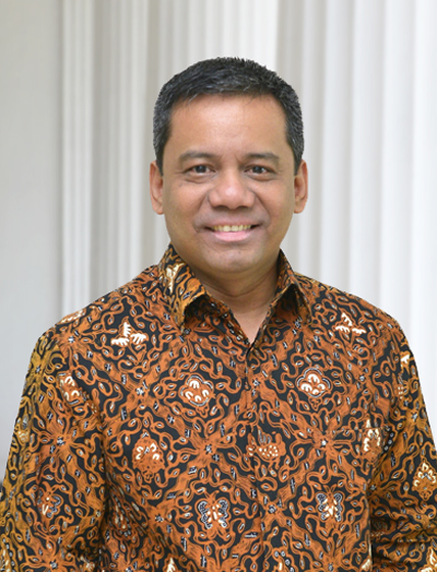 Official portrait of Deputy Minister of Finance of the Republic Indonesia. He was appointed at 25 October 2019 by President Joko Widodo.